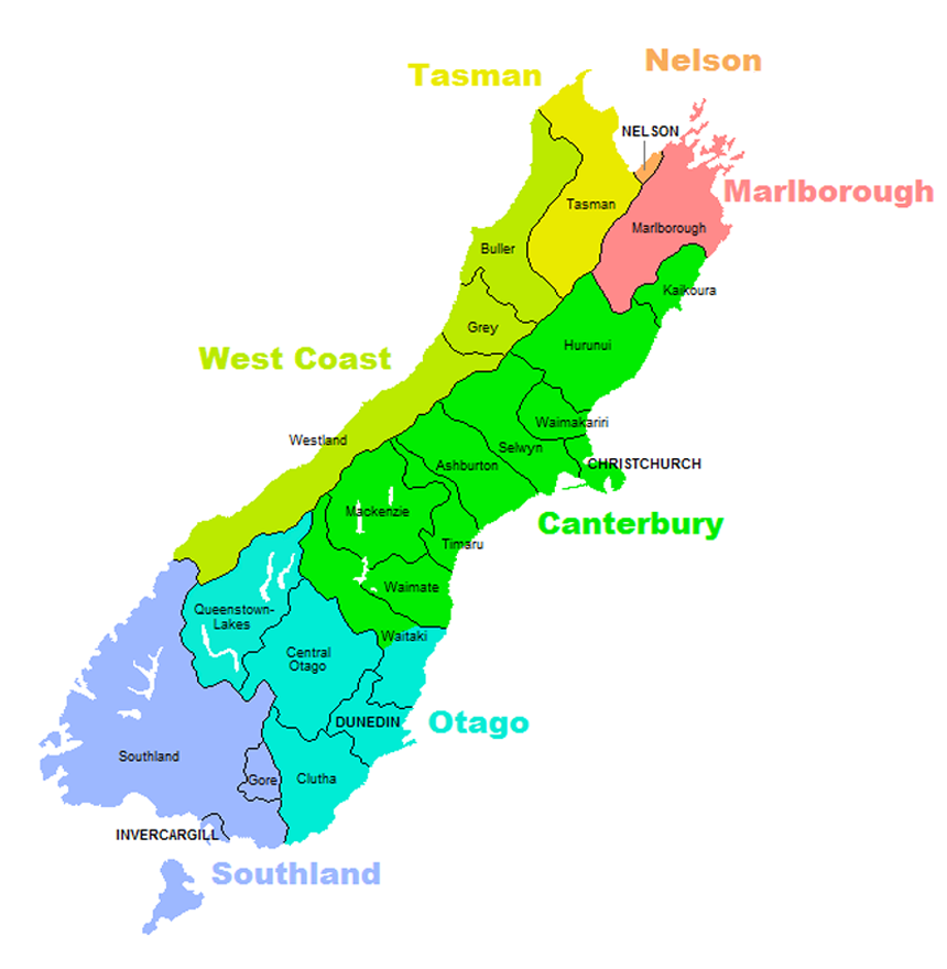 New Zealand Teritorial Authorities South Island (crop